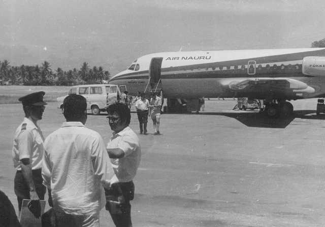 Plane of Air Nauru